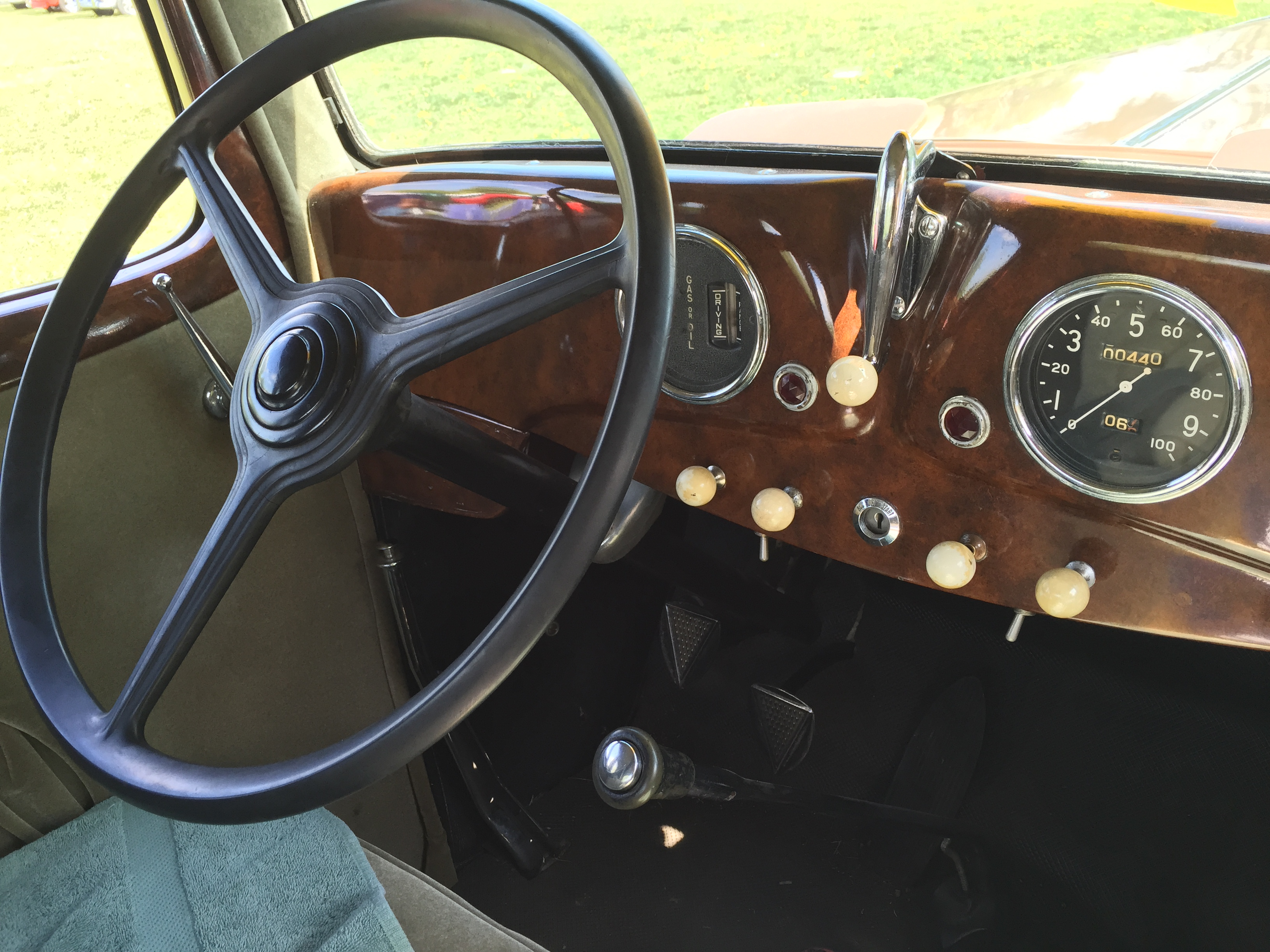 1932 Hudson Eight coupe with rumble seat - 233.7 CID 8-cylinder 119-inch wheelbase model. Finished in brown. Picture taken at the 2015 Shenandoah AACA meet